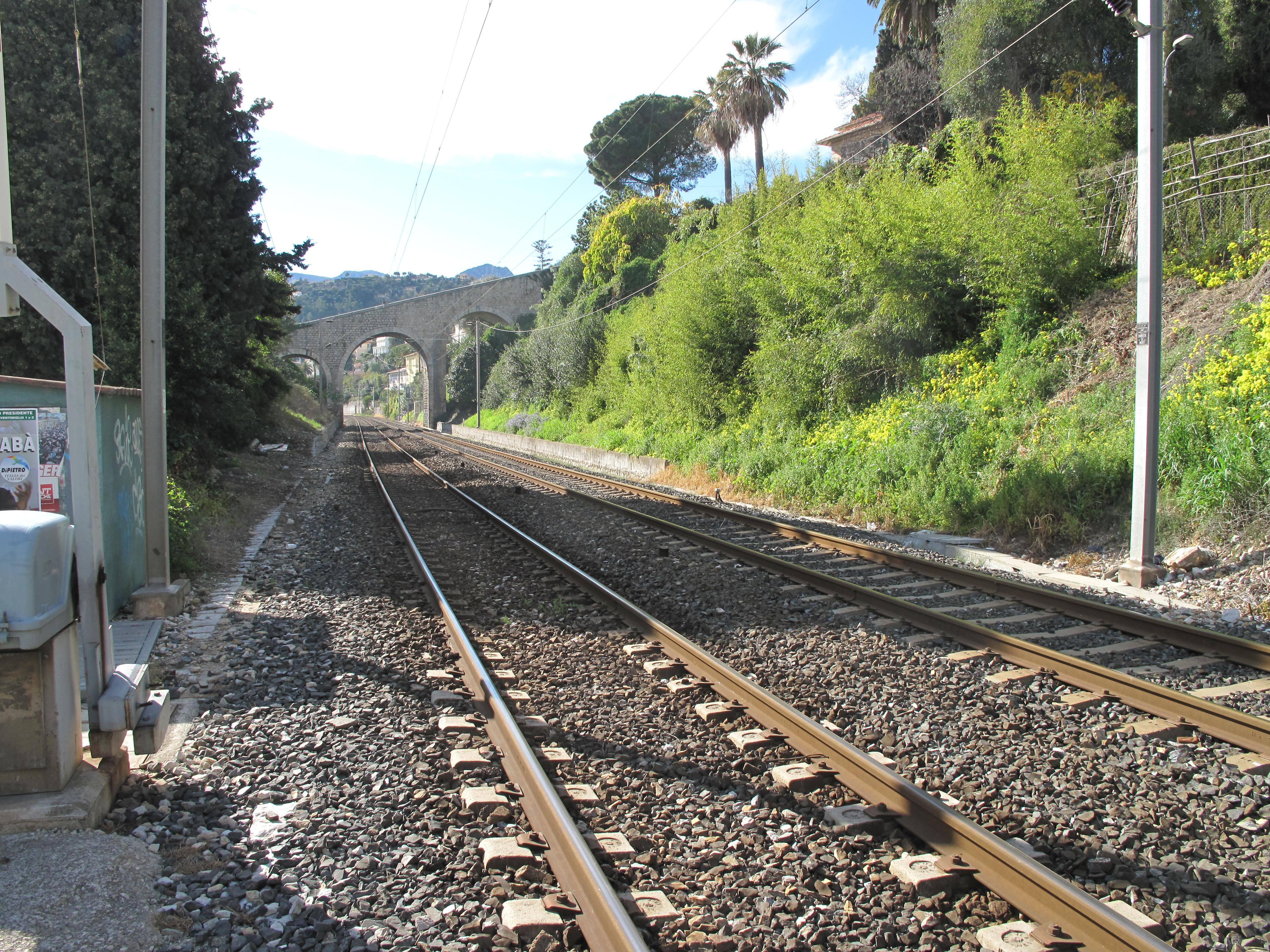 Railway tracks, east of Menton (Alpes-Maritimes, France), backing Vintimiglia